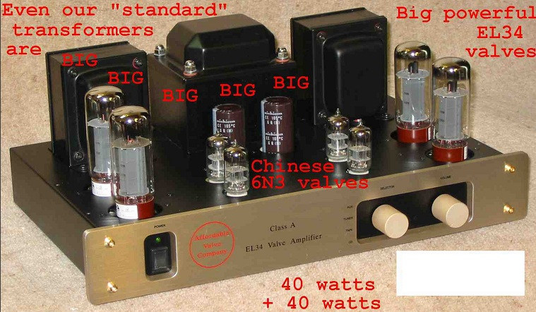 el2